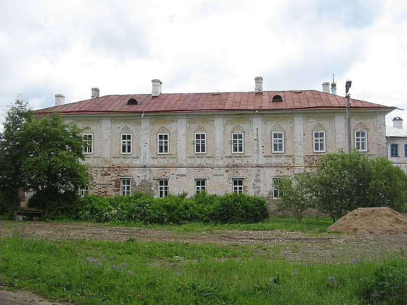 Brethren house from the outside Pavlo-Obnorsky monastery